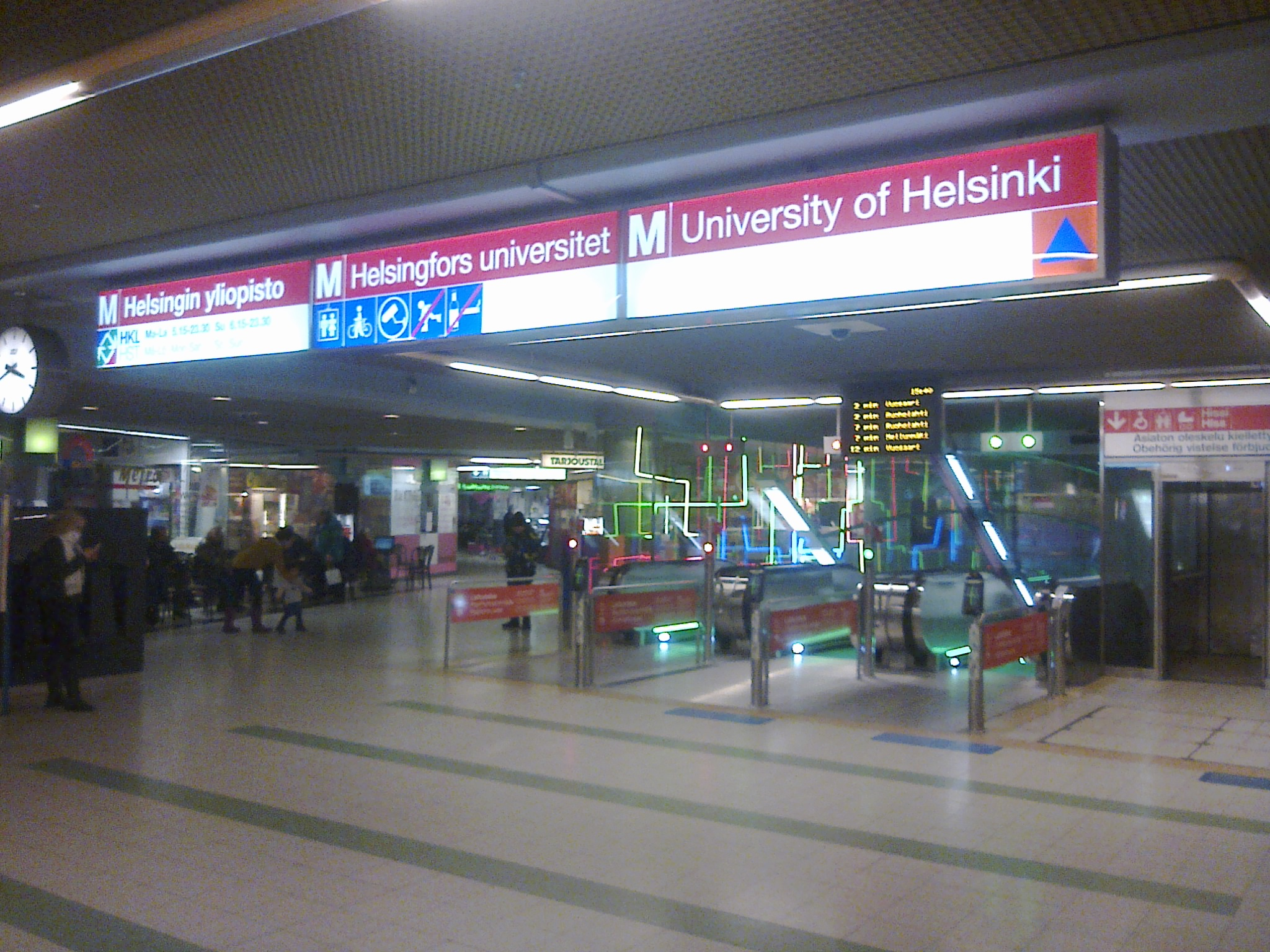 University of Helsinki metro station